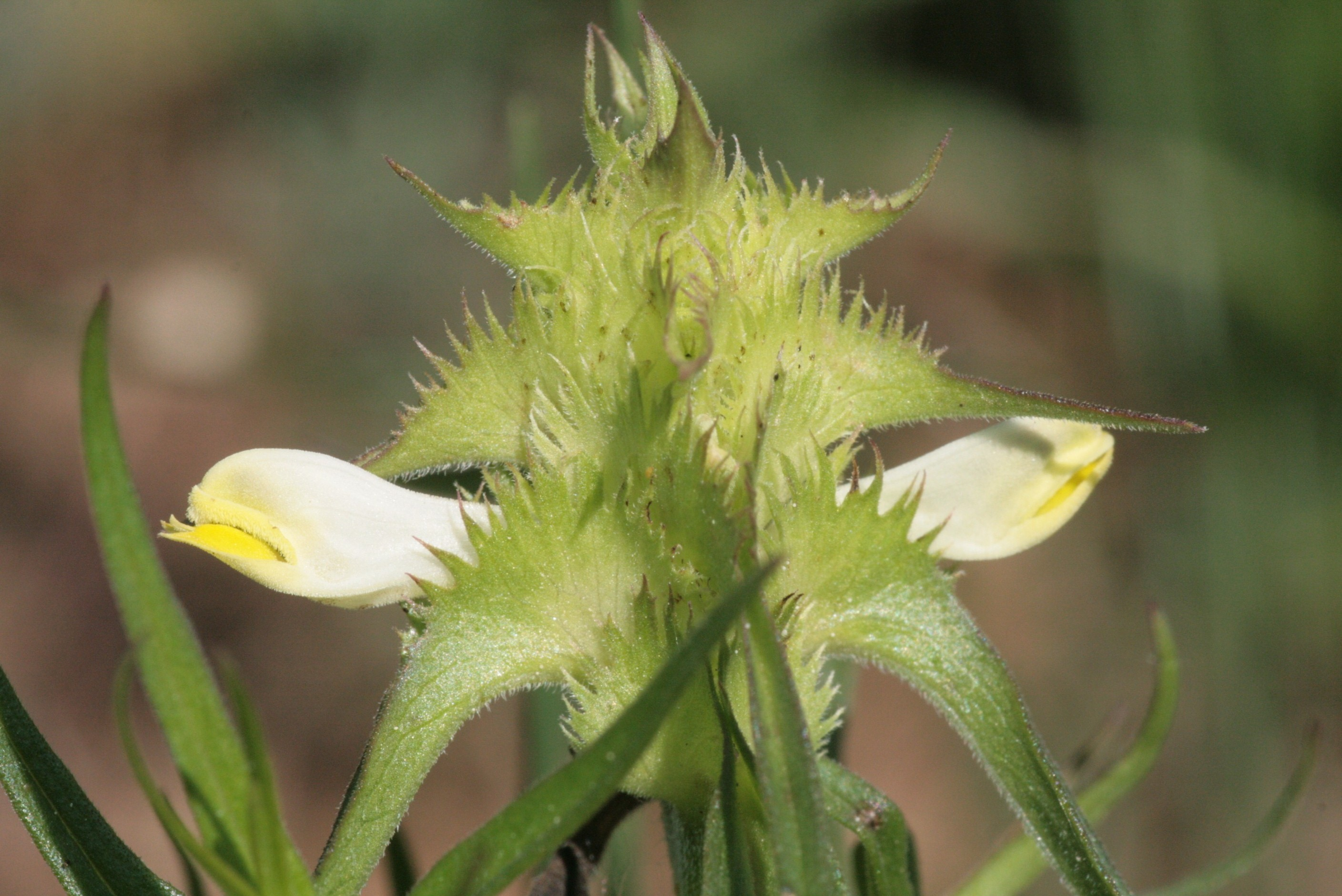 Melampyrum cristatum